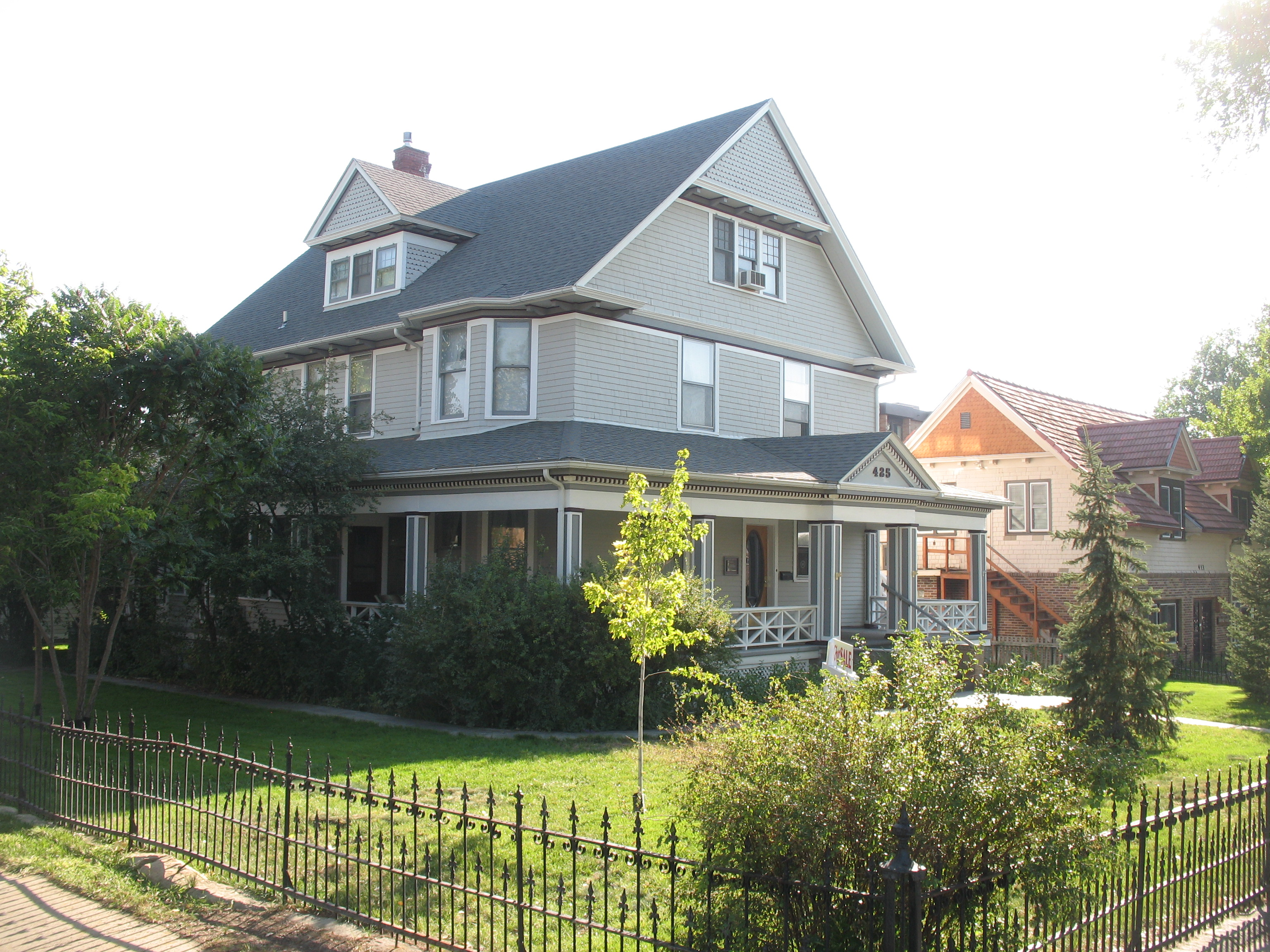 Morton MansionMansion with Carriage House (Tan/Brick -- Now converted to a house) in background.